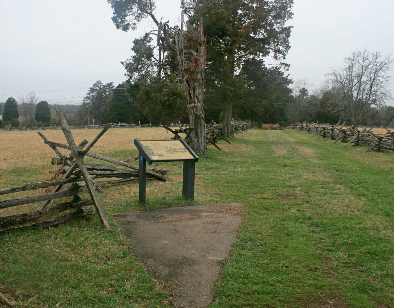 Robertsons lane and Hamptons position marker